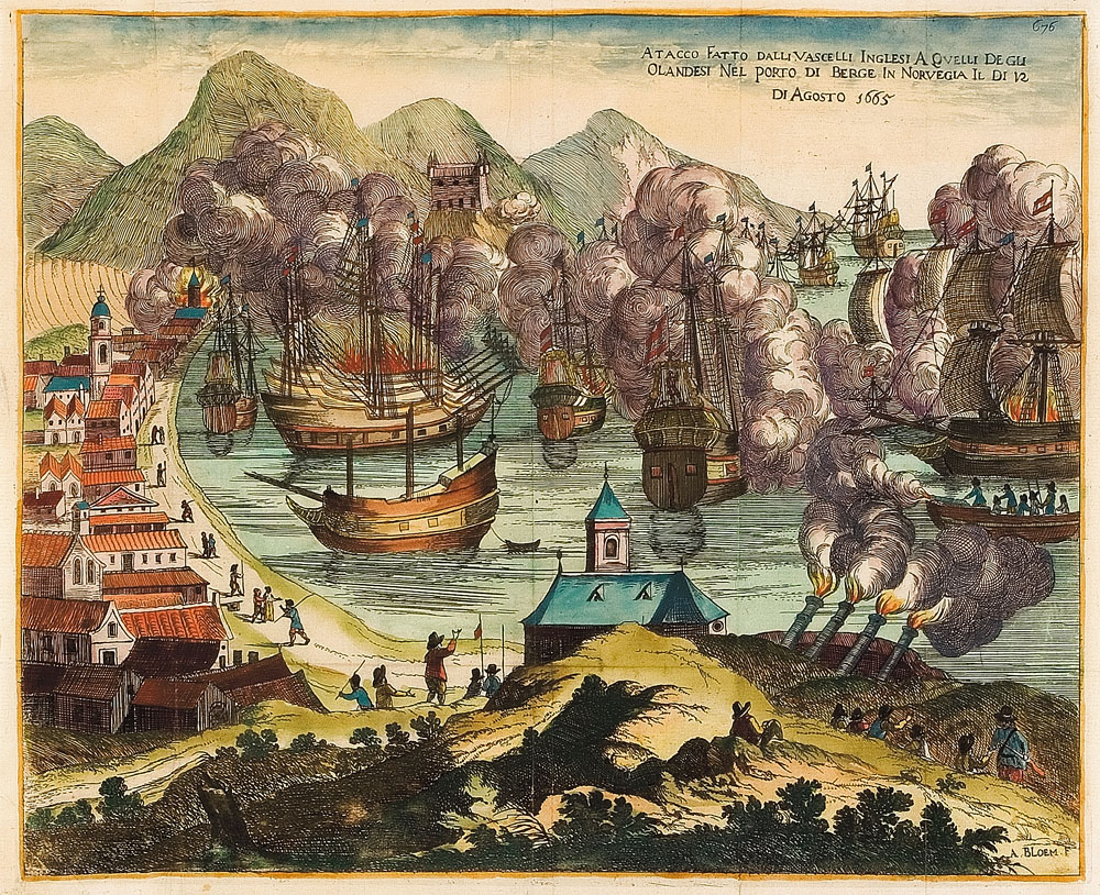 The attack on the Norwegian port of Bergen on Tuesday August 12th, 1665.